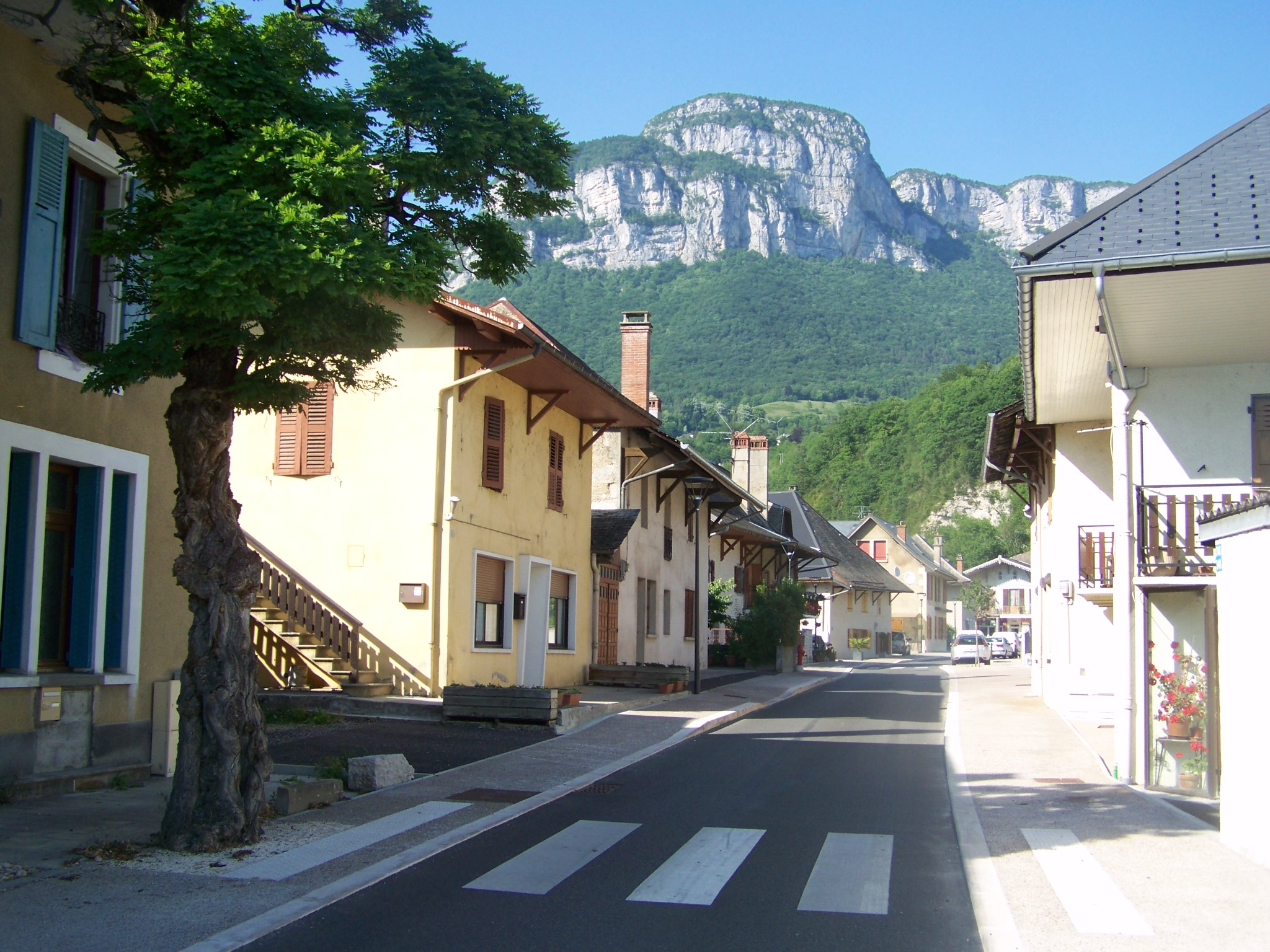 Center of the French commune of Saint-Alban-Leysse, near Chambéry, Savoie.